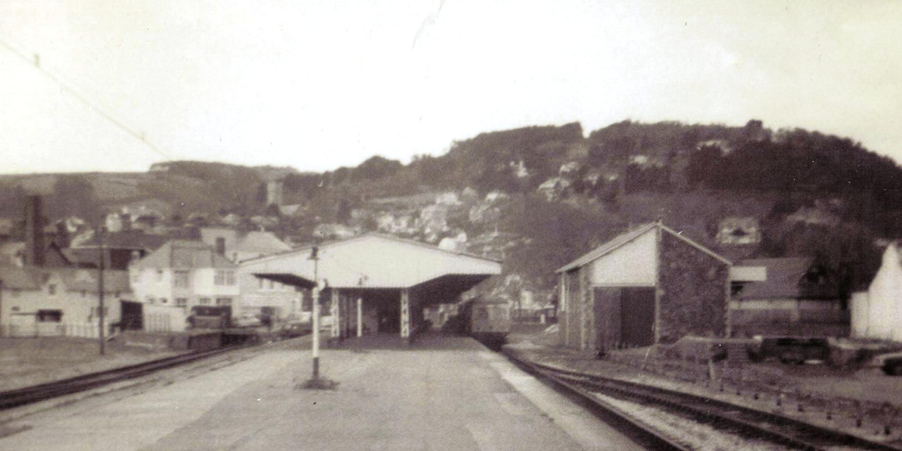 Minehead Station on the line from Taunton on 5 May 1970.